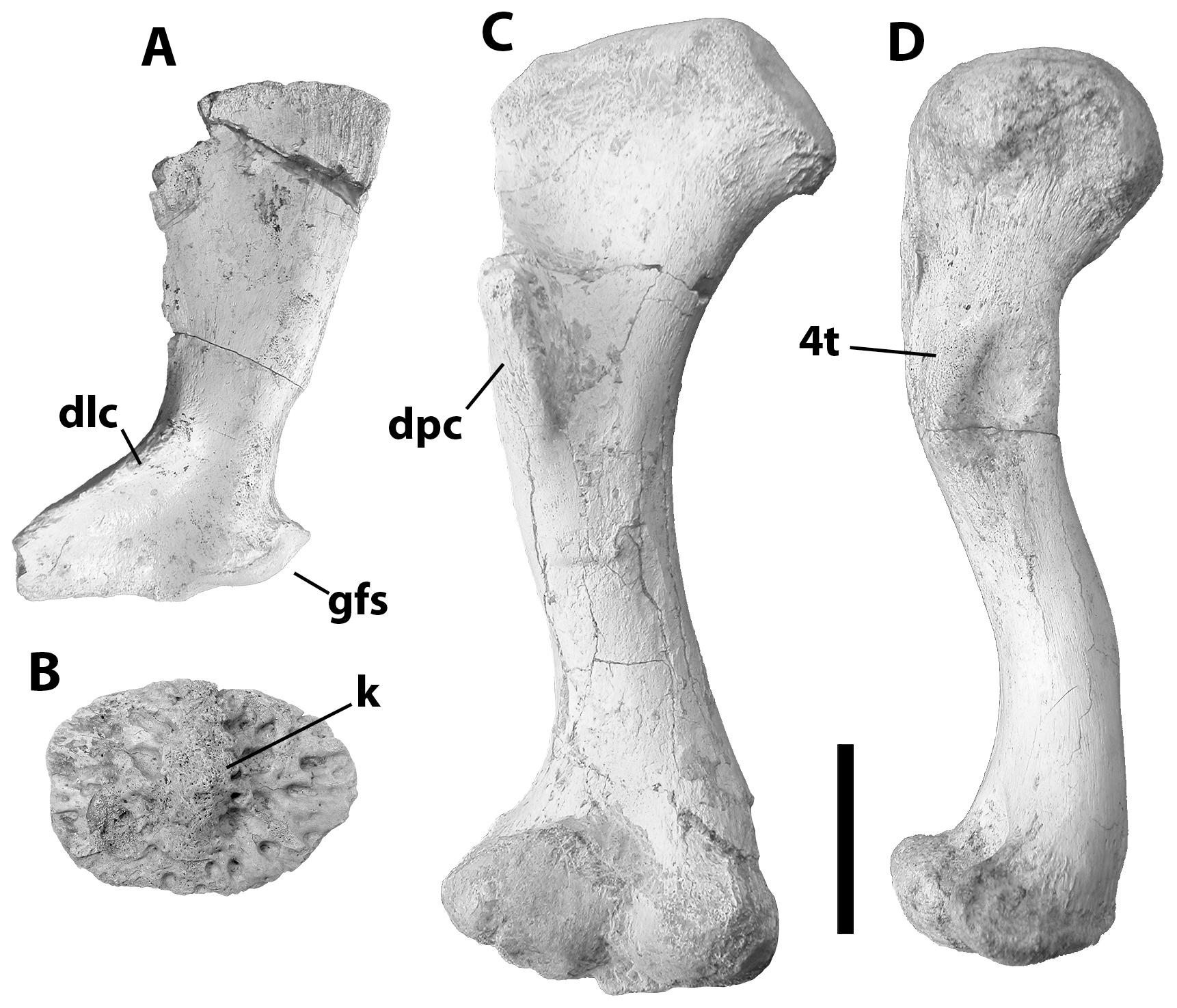 Postcranial material referred to Crocodylus anthropophagus. A, KNM DK I B, left scapula, lateral view; B, NHM R.5894, ?nuchal osteoderm; C, KNM DK I B OLD 62 54, right humerus, ventral view; D, KNM FLKNI, right femur, ventral view. Scale = 5 cm.